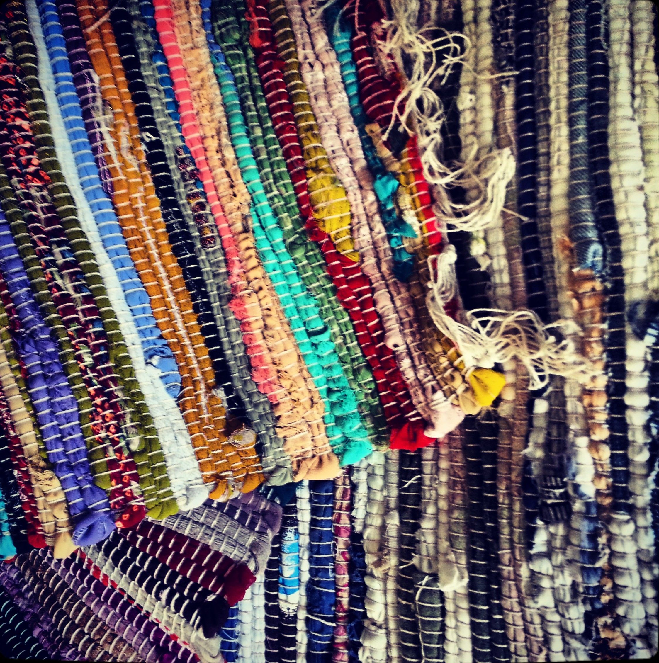 Manufactured Rag Rugs.